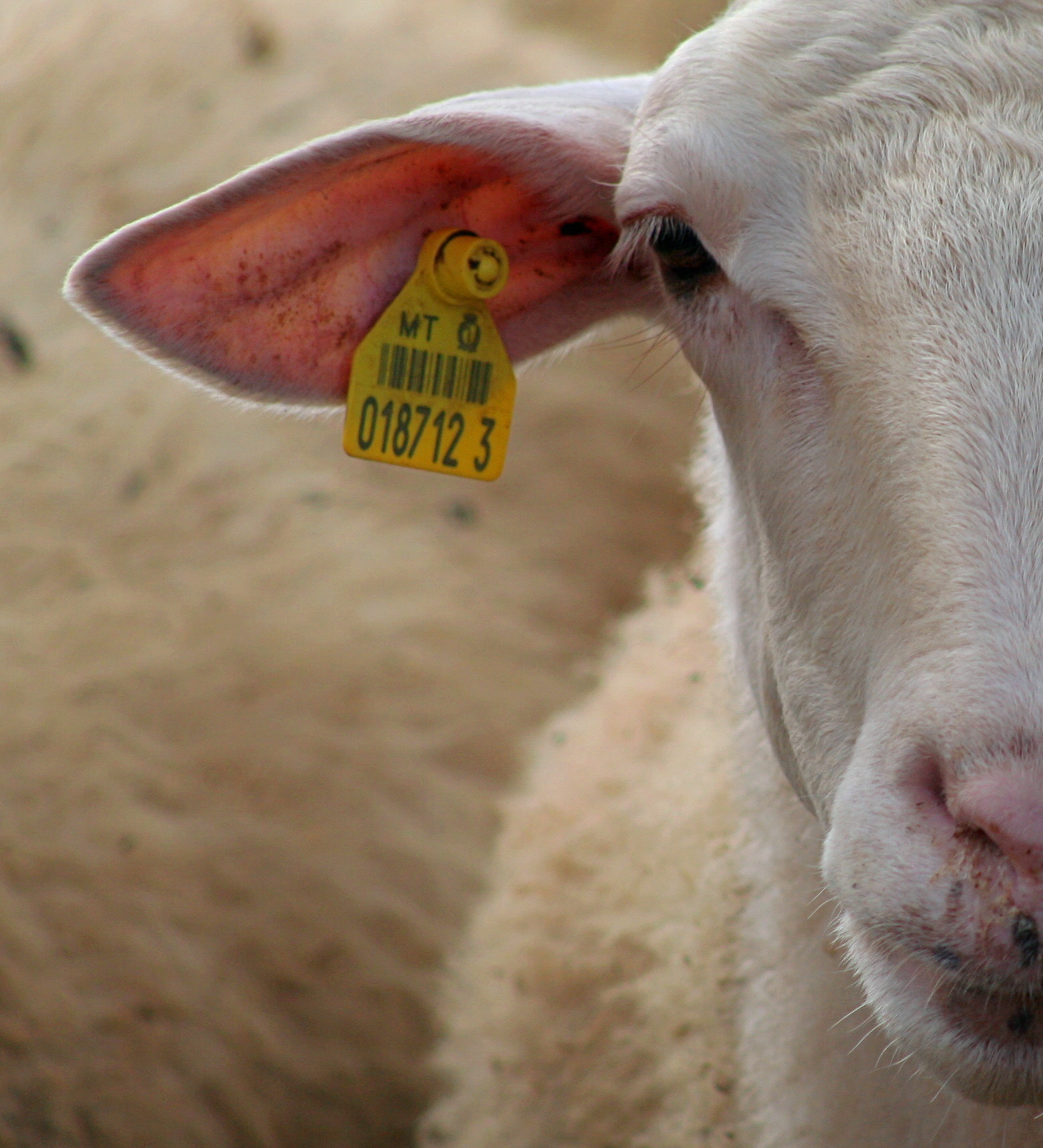 Cropped close-up of a Maltese sheep's face (with ear tag).